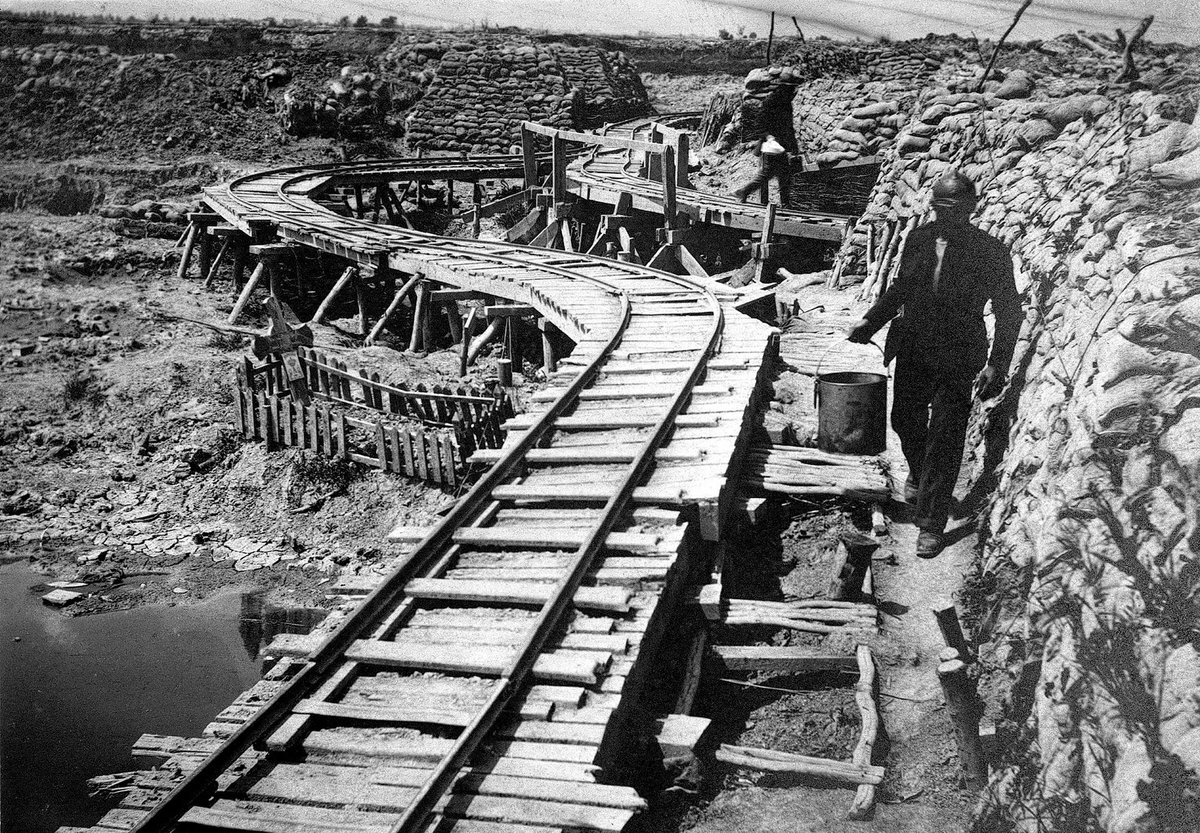 WW1 Belgian trenches and decauville track near Diksmuide (Dixmude)